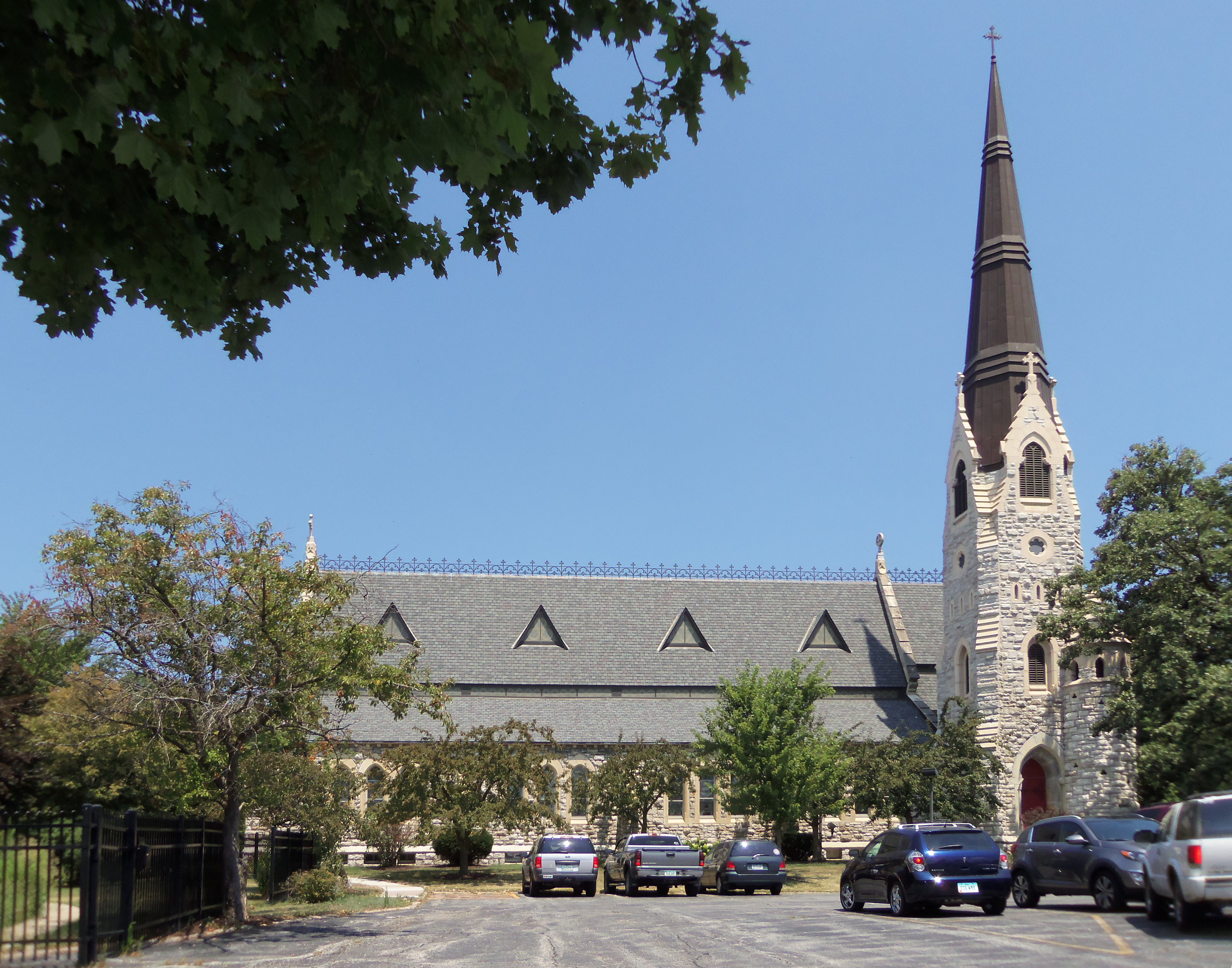 Trinity Episcopal Cathedral in Davenport, Iowa. This is the south elevation showing the bell tower and spire.